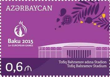 Coming soon - First European Games. Baku 2015.